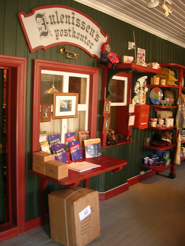 Santa Claus post office in Drøbak (Norway)